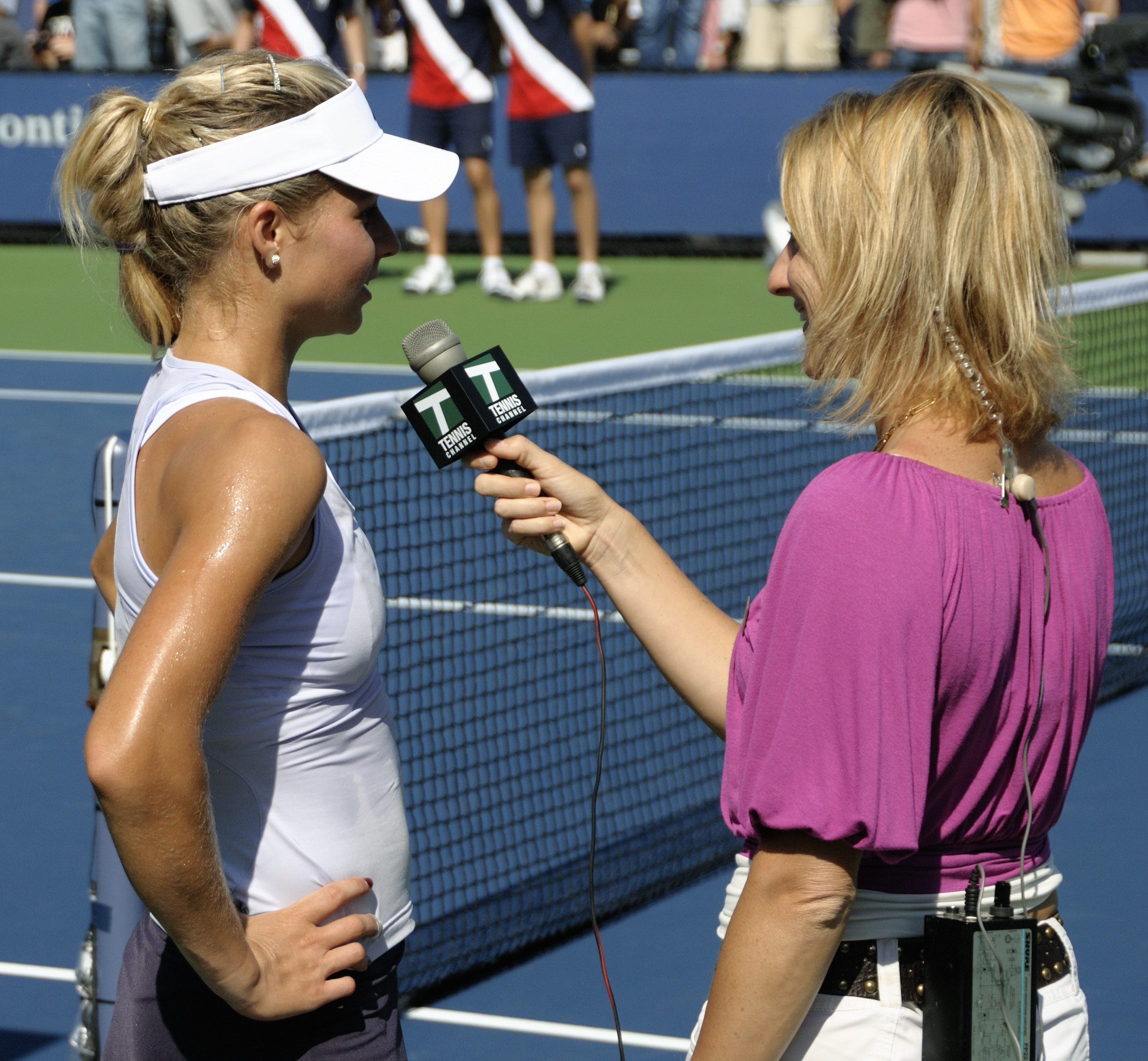 Maria Kirilenko interviewed by Corina Morariu at the 2009 US Open